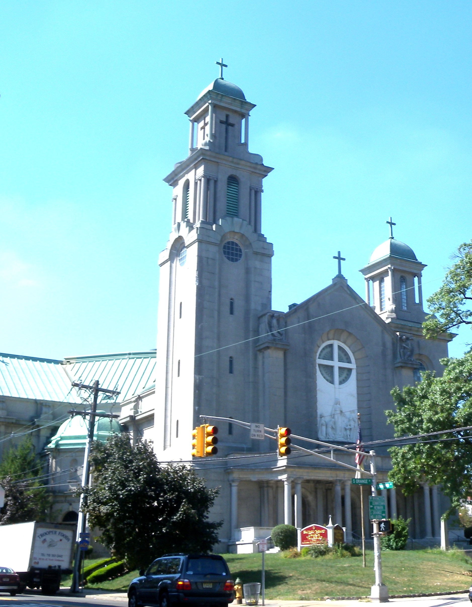 Looking southwest across South Orange Avenue and Sanford Avenue at Sacred Heart of Vailsburg on a sunny morning.